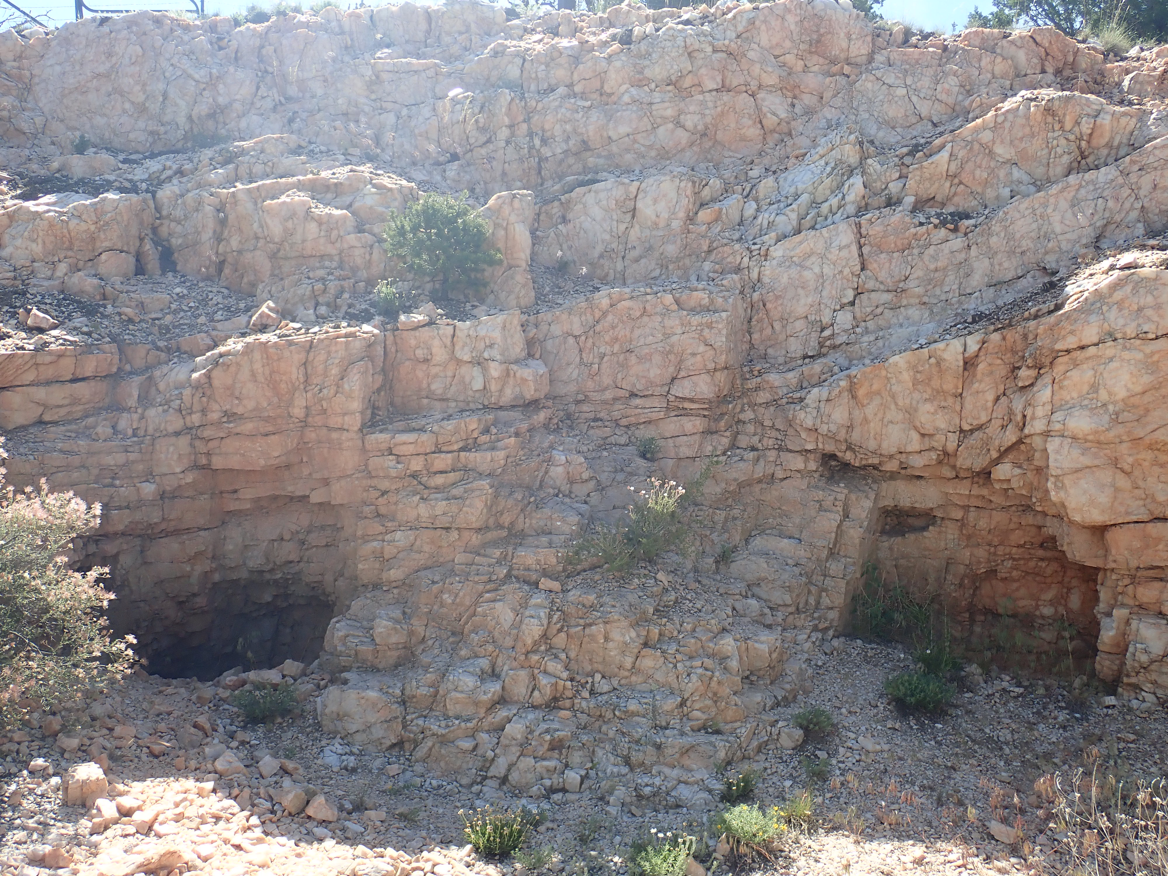 This is the east face of the main quarry of the Harding Mine, New Mexico. The adits were driven to mine lepidolite laths from the base of the massive quartz zone of the pegmatite body.